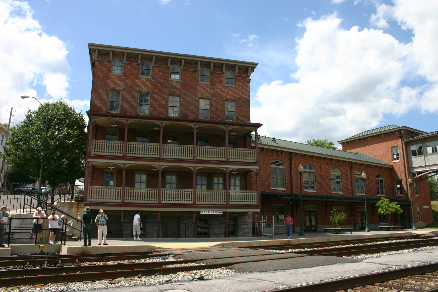 Martinsburg historical railyard in 2008 CWEA tour